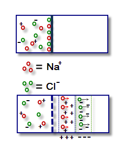 Liquid joint potential: Chloride anions (Cl-) move faster than Sodium cations (Na+). So, a double electric layer appears with a difference of potential.